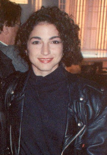 Gloria Estefan at a rehearsal for the Grammy Awards (cropped)917